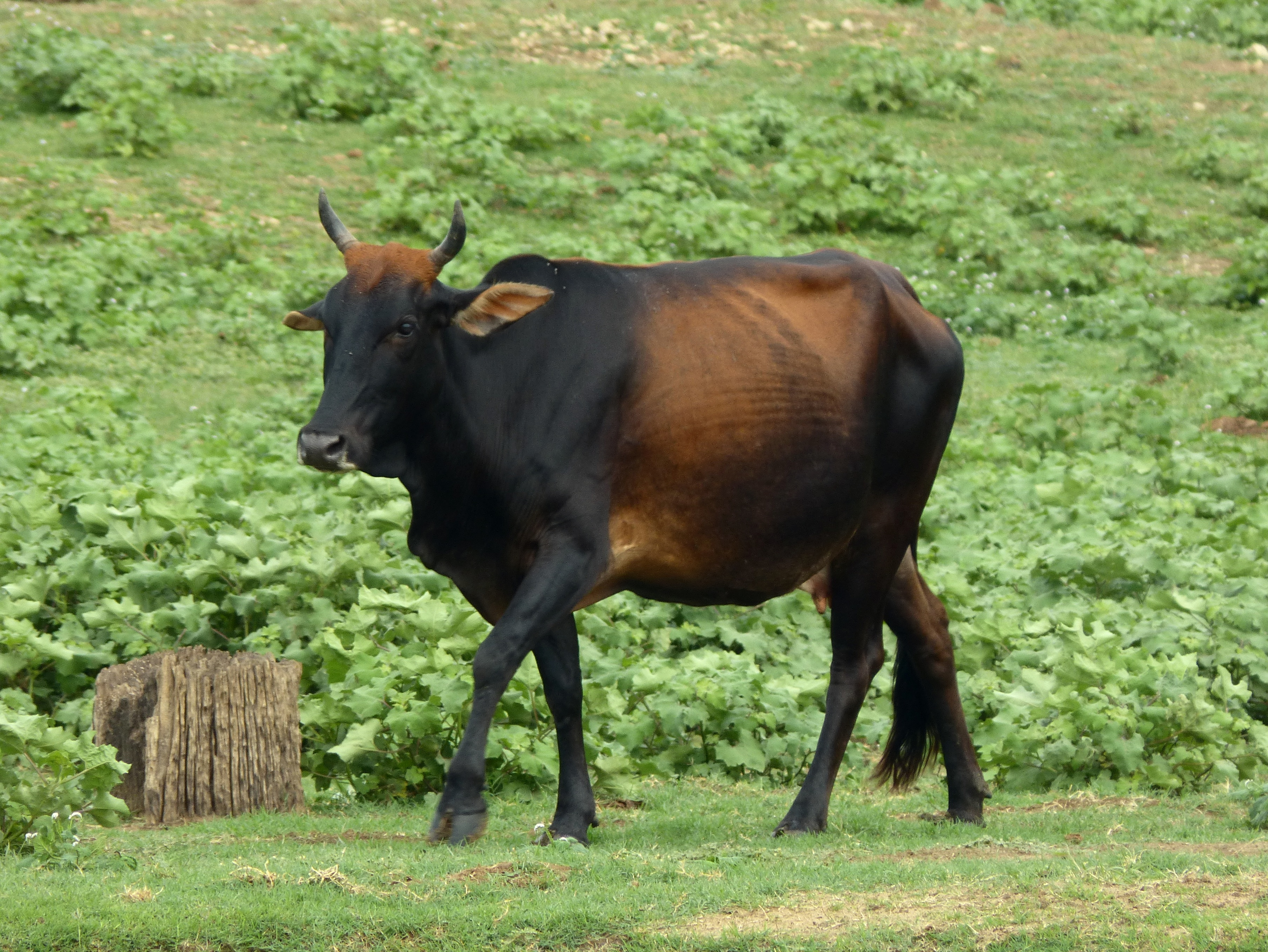 Female zebu cattle at Udawalawe National Park, Sri Lanka.